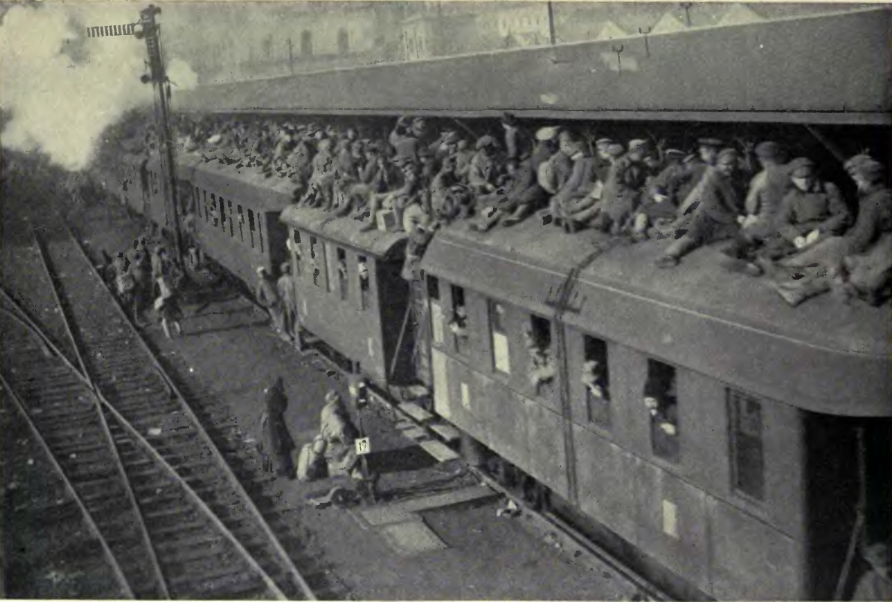 Hungarian returning from the front, 1918-1919.